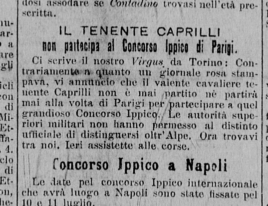 Article reports that Federico Caprilli was not going to Paris for the horse show competition linked to the II Olympic Games